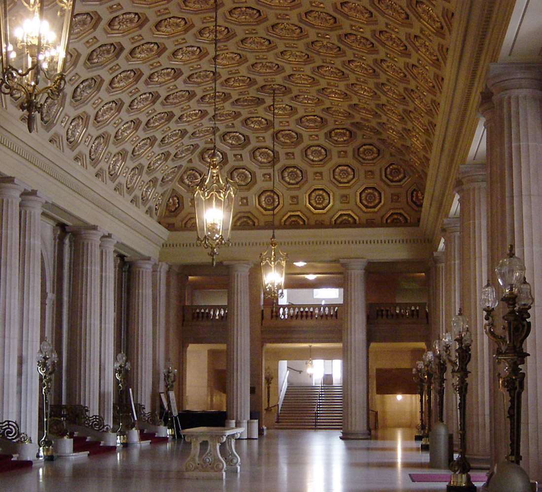 Lobby of the San Francisco War Memorial Opera House. Note: This image is misnamed, view is to the North.